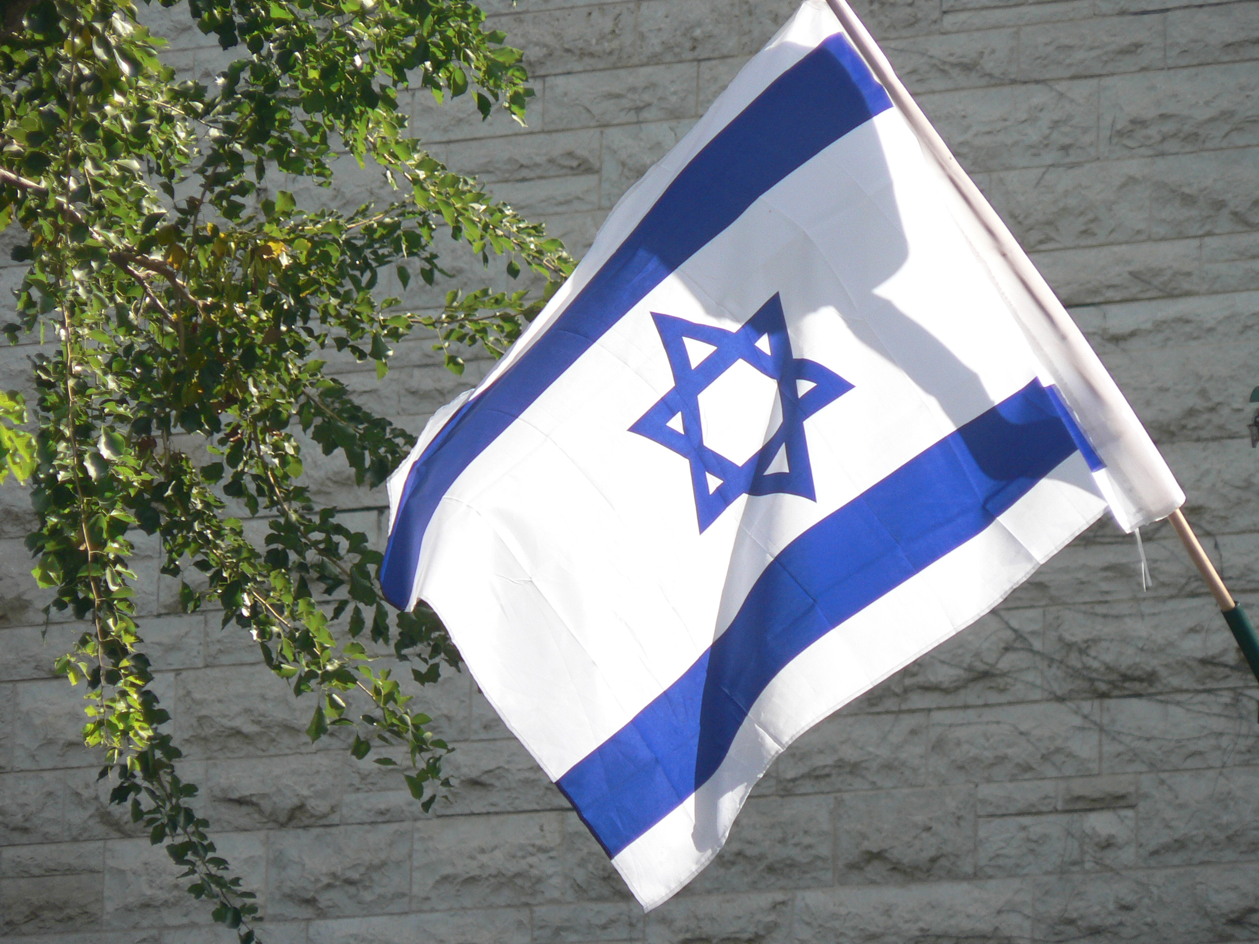 Weizmann Institute of Science, Israel מכון ויצמן למדע